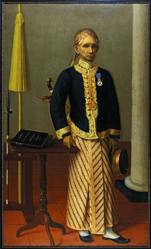 Oil painting depicting Raden Aria Kusuma di Ninggrat, regent of Galuh